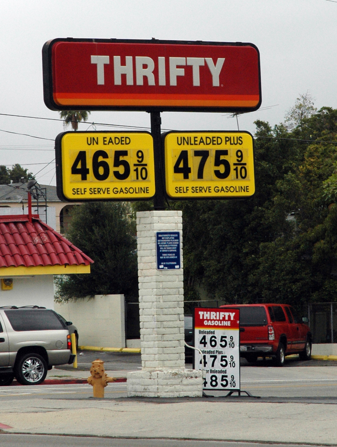 Thrifty Gas Prices in San Pedro